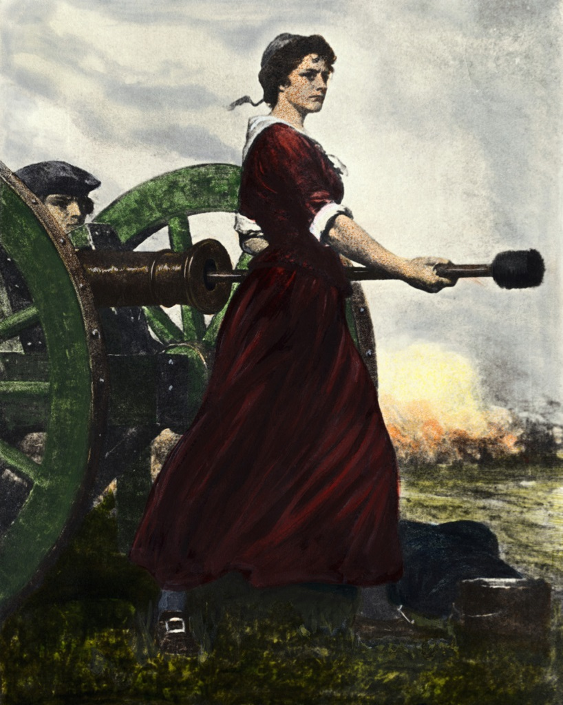 Engraving: Molly Pitcher at the Battle of Monmouth (circa 1912) by Charles Yardley Turner.